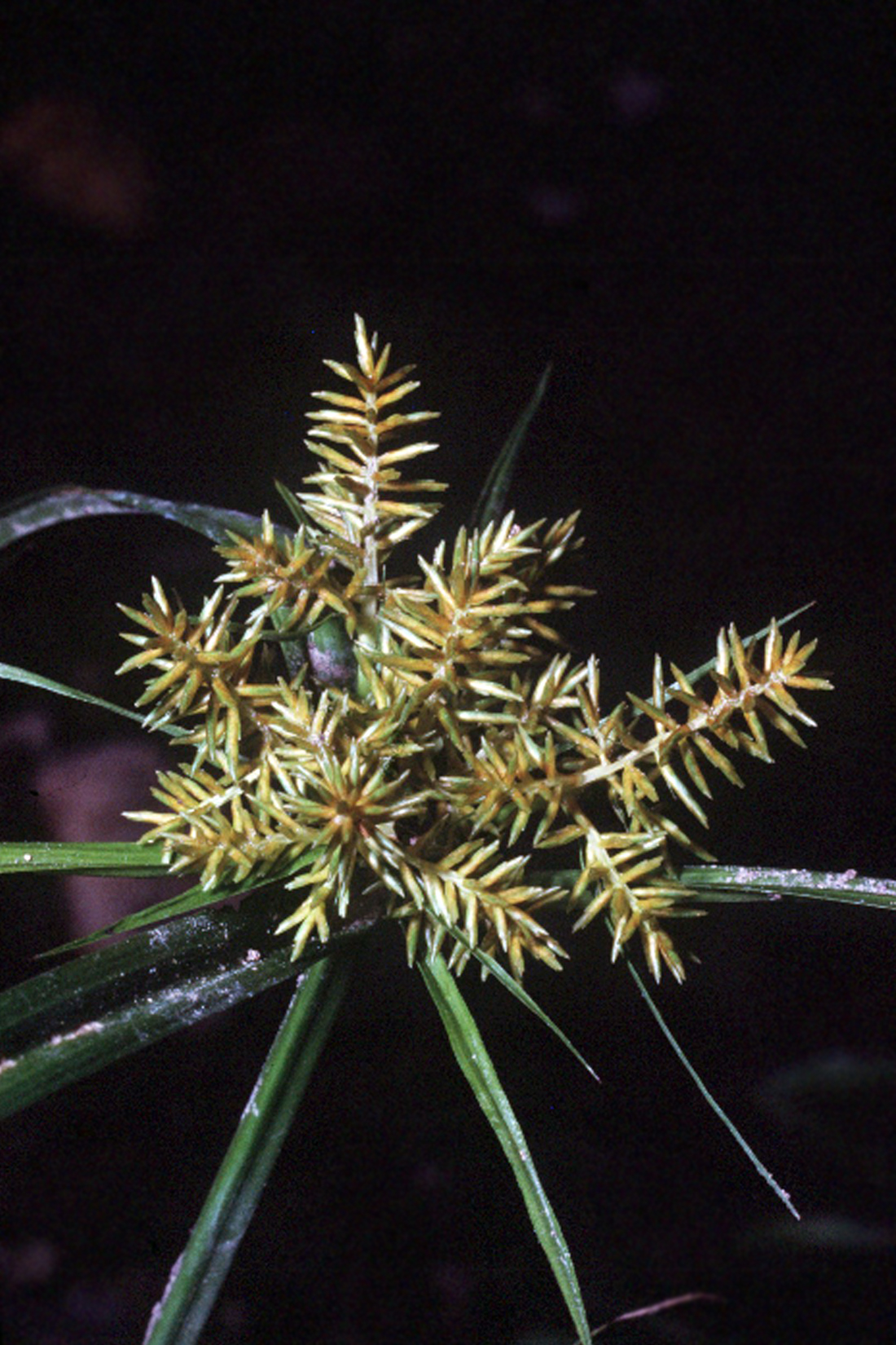 Cyperus esculentus L. - yellow nutsedge